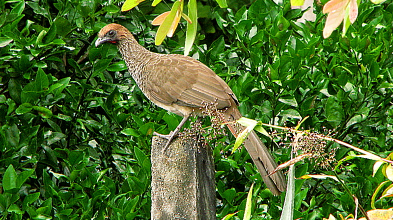 Interrupted when feeding on chili peppers in my courtyard.